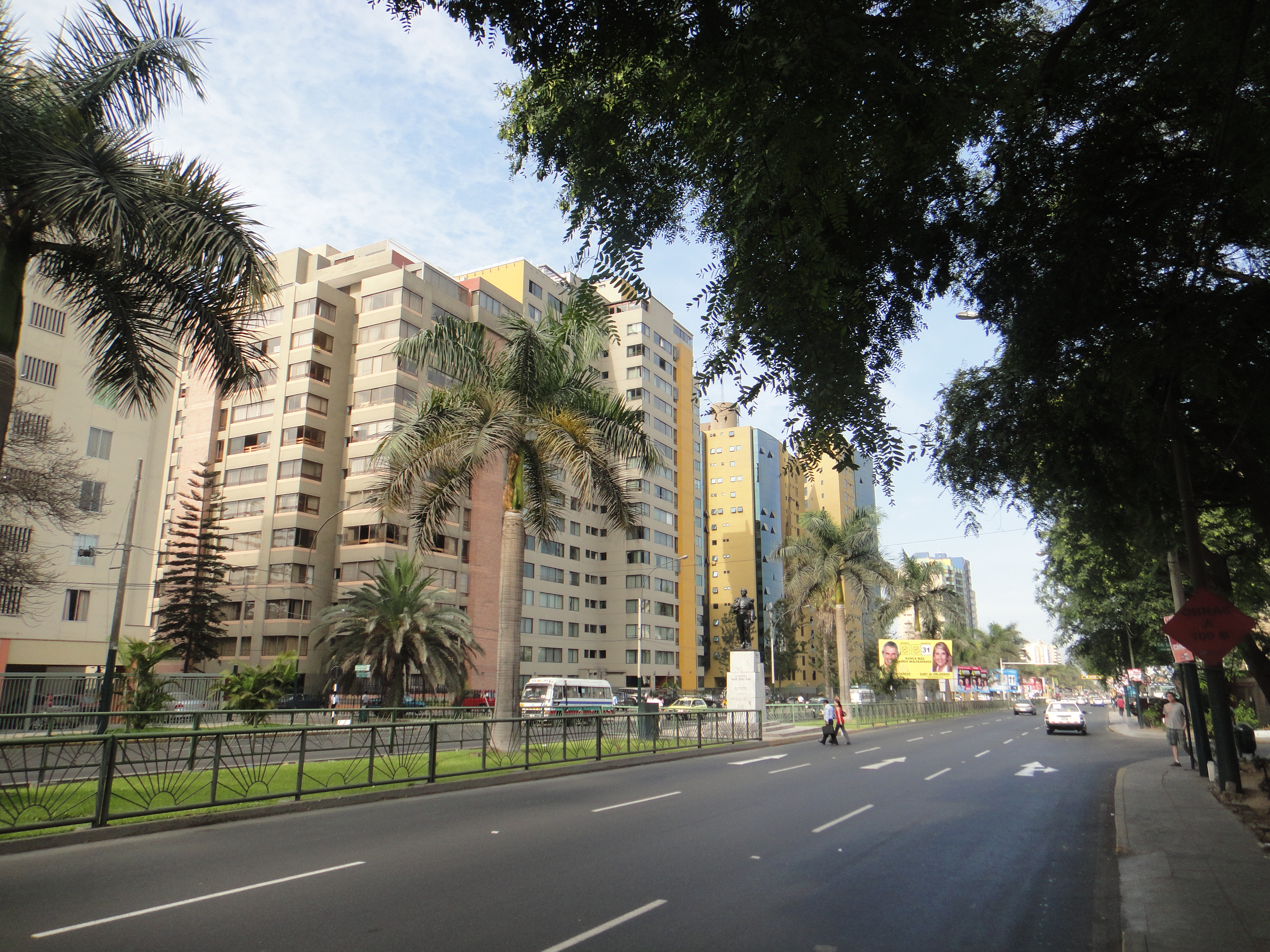 Javier Prado Ave. and Saenz Peña statue in San Isidro District, Lima-Peru.